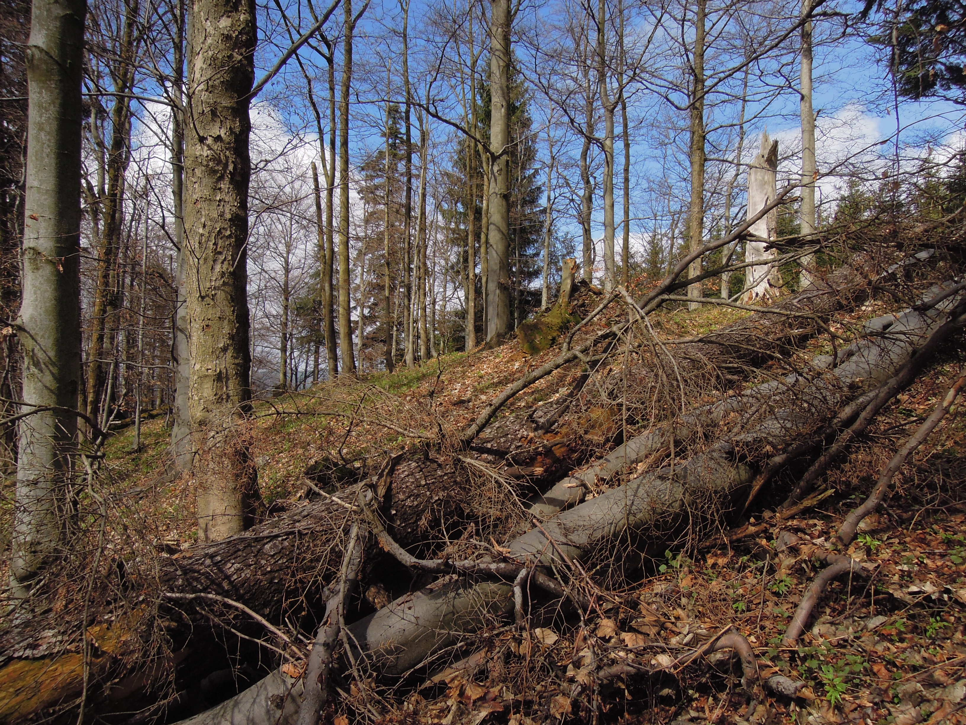 Vachalka natural monument in Karolinka, Vsetín District, Zlín Region, Czech Republic